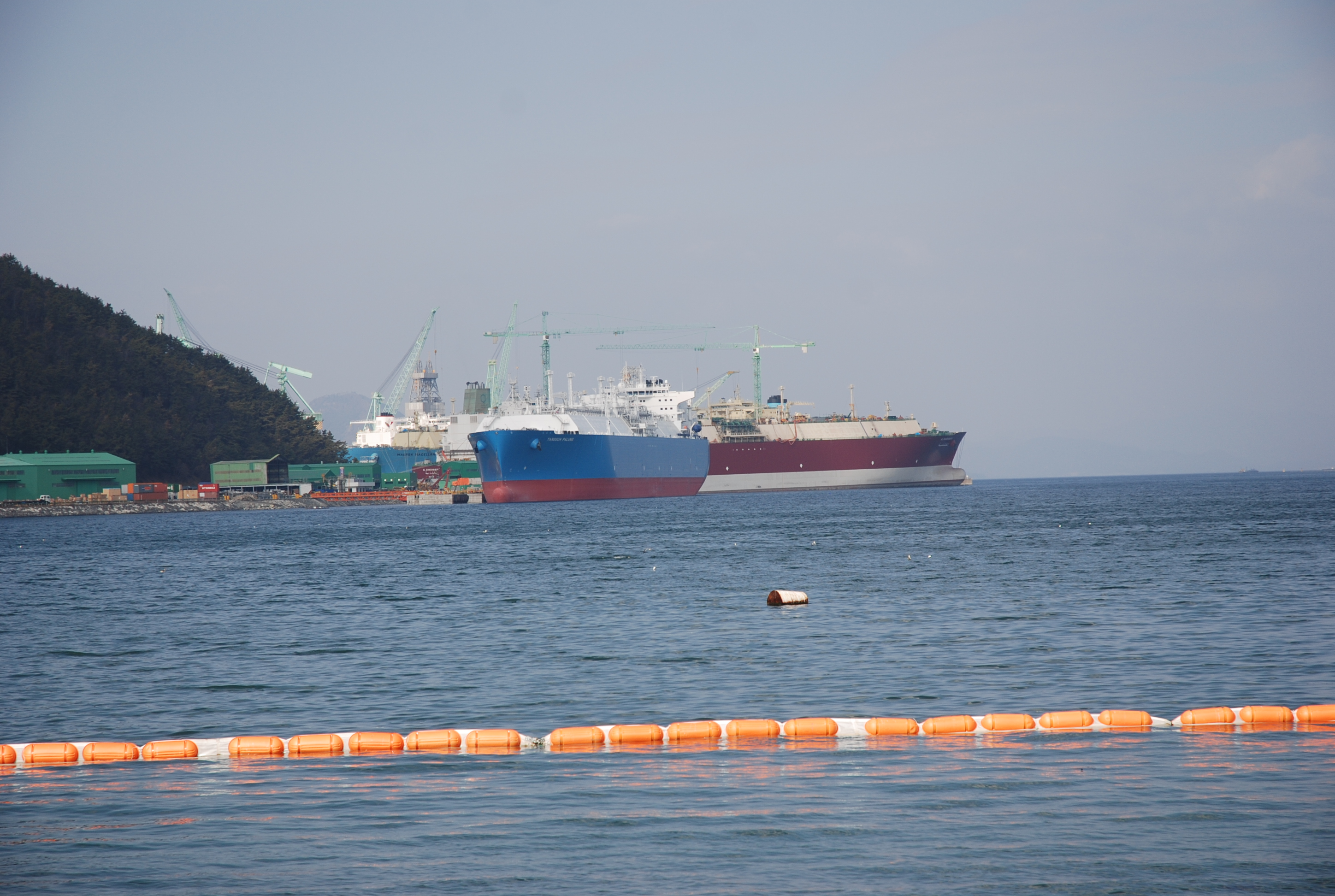 Geoje Samsung shipbuiding, Gyeongsangnam-do, Korea